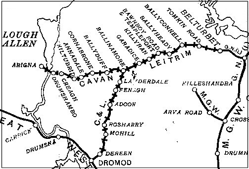 extract from Railway map of Ireland, 1906